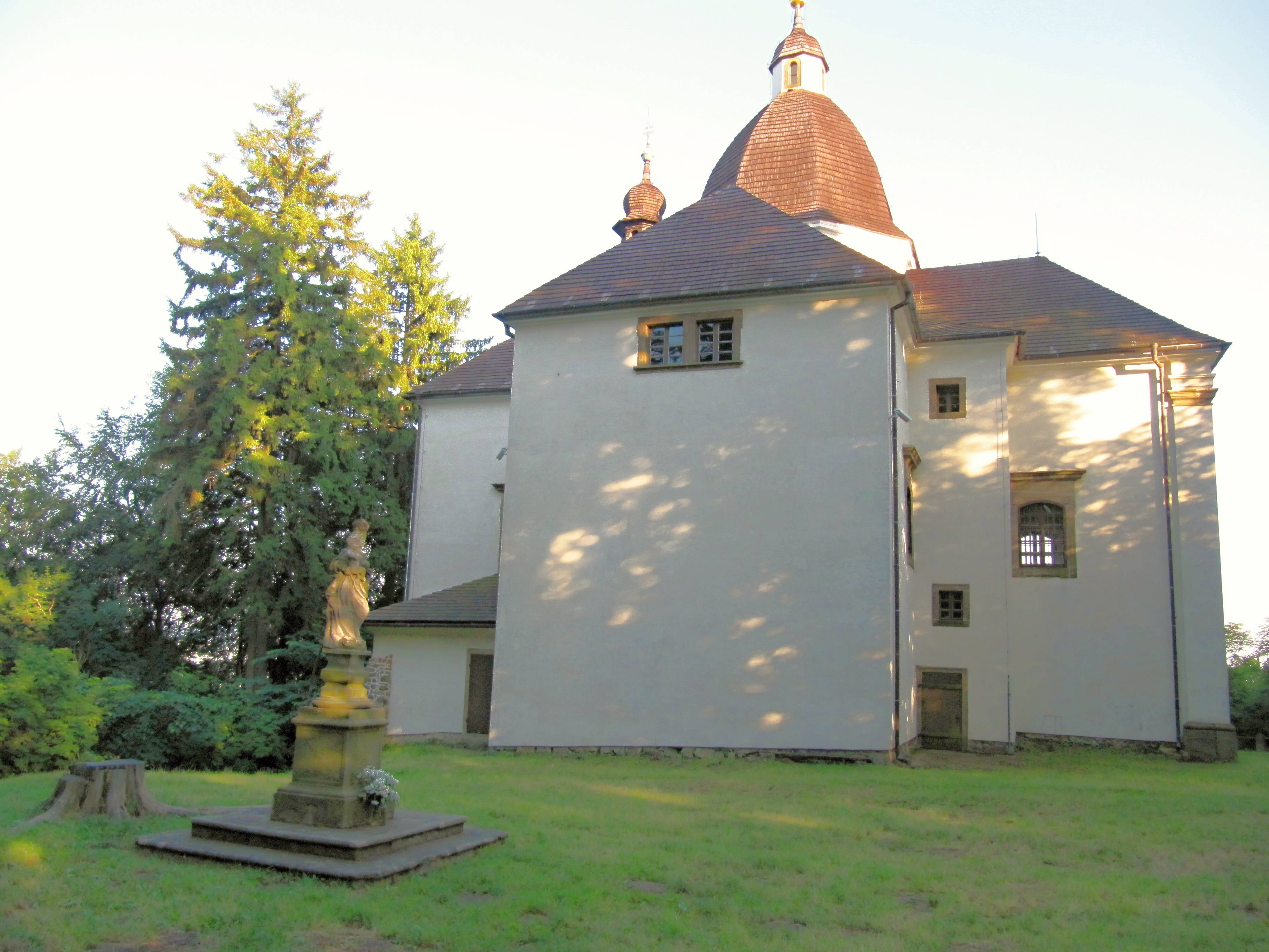 Buchlovice, Uherské Hradiště District, Czechia. Saint Barbara Chapel.